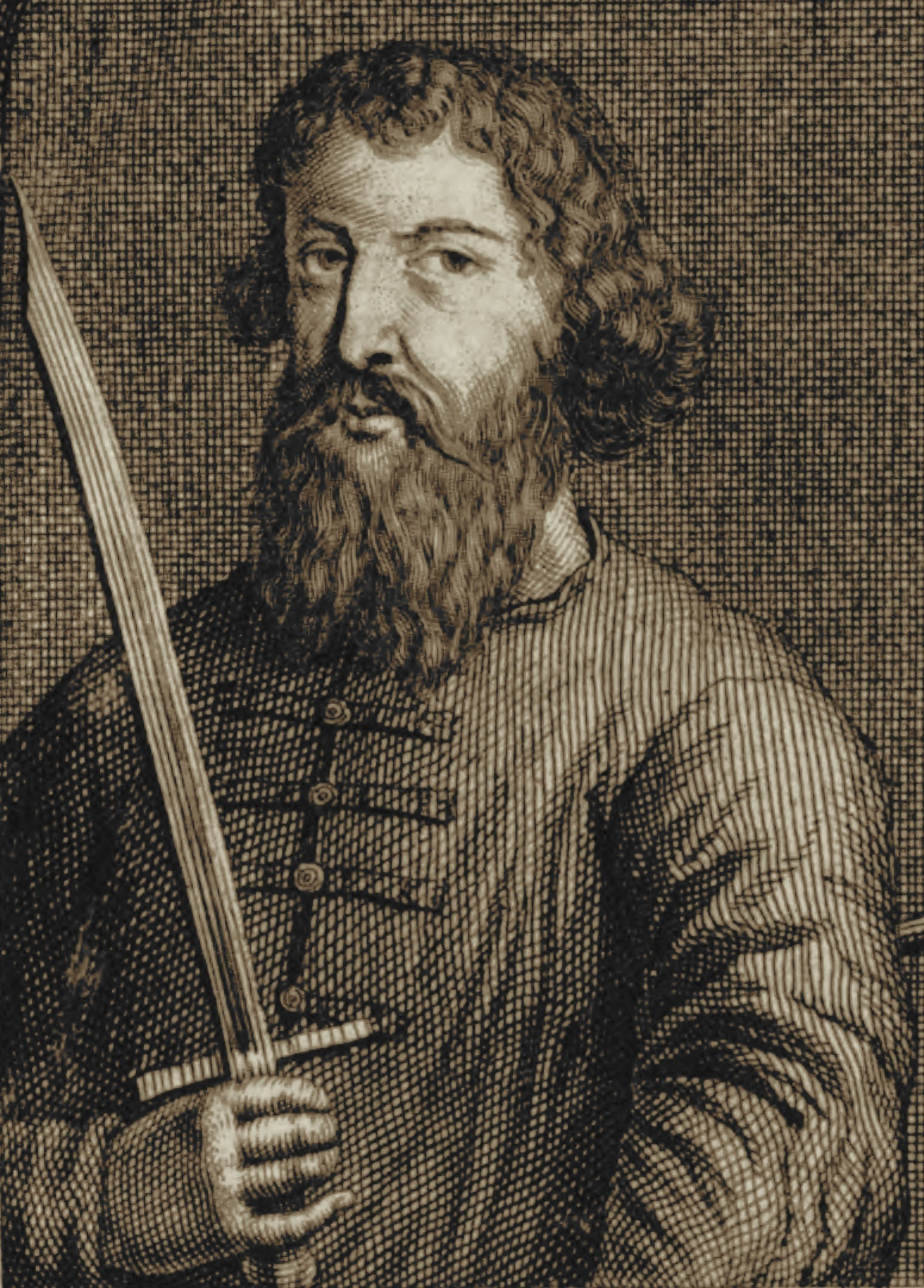 Archil of Imereti king of Iberia